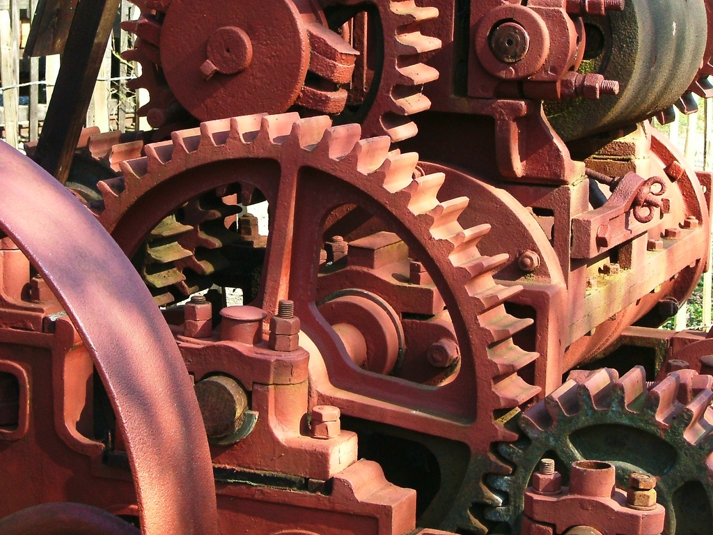 Detail of an old rock crusher in Amberley Working Museum, England.Gears gears cogs bits n pieces